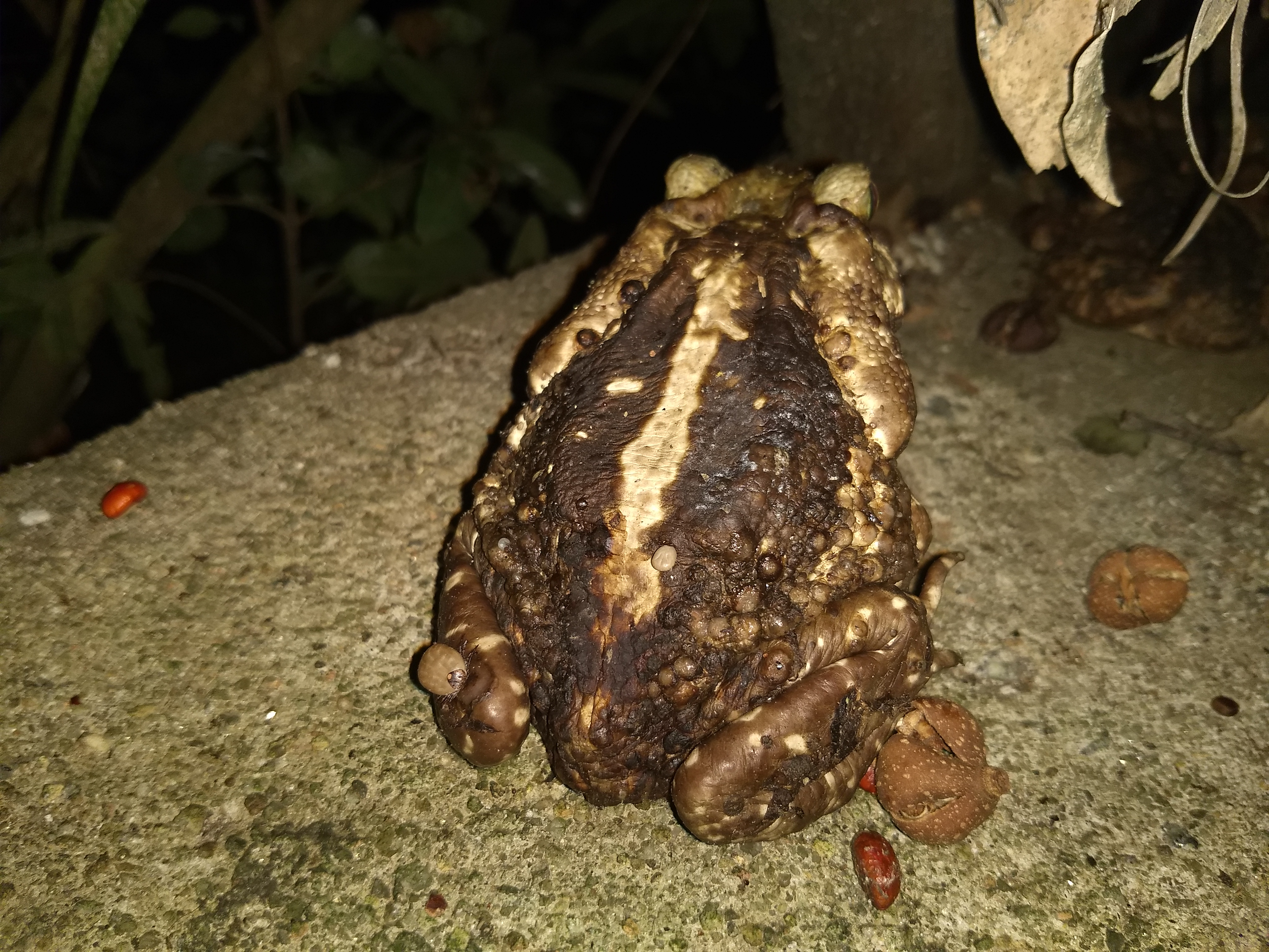 A female of cururu toad (Rhinella icterica) parasited by some ticks (Amblyomma rotundatum).